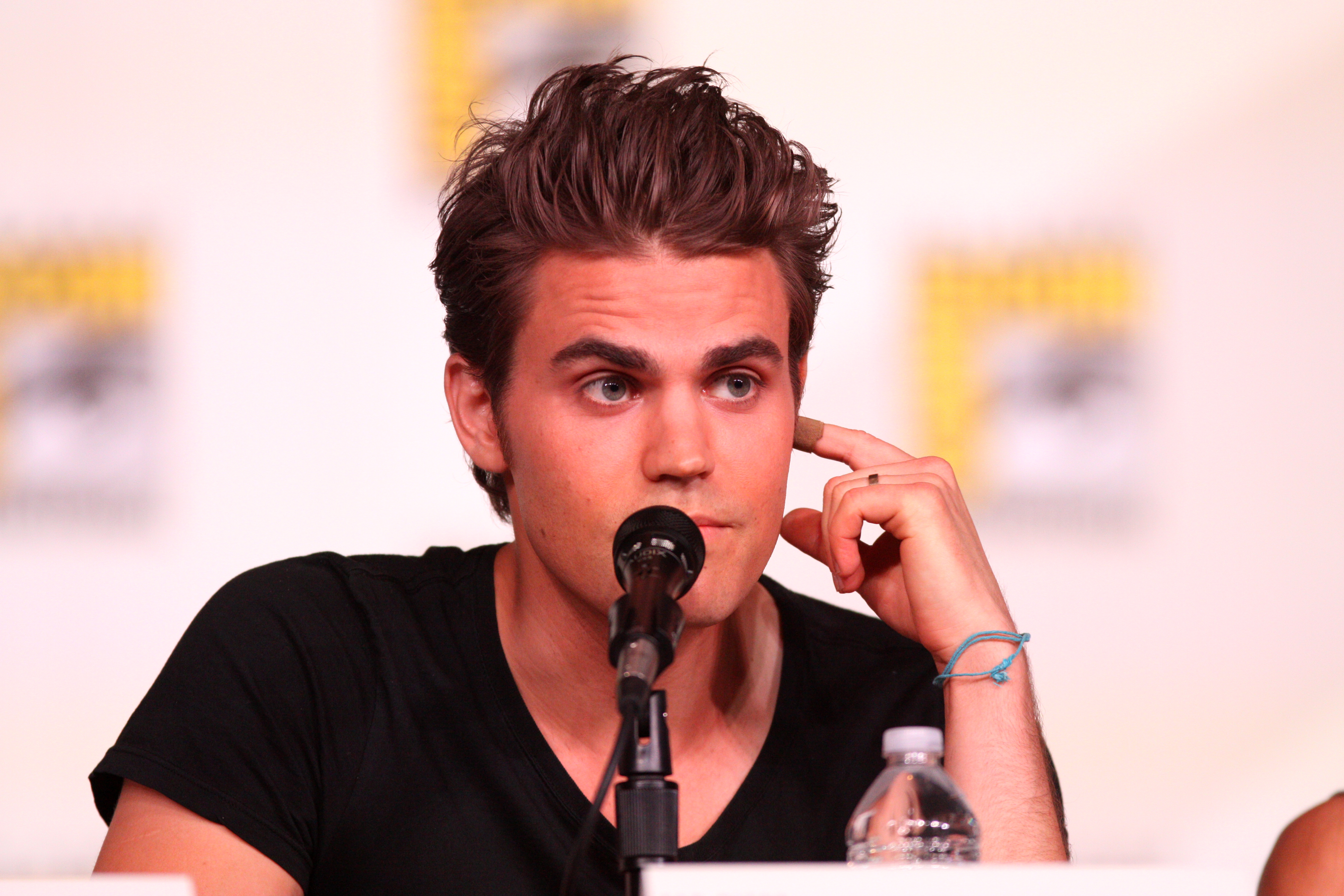 Paul Wesley speaking at the 2012 San Diego Comic-Con International in San Diego, California.